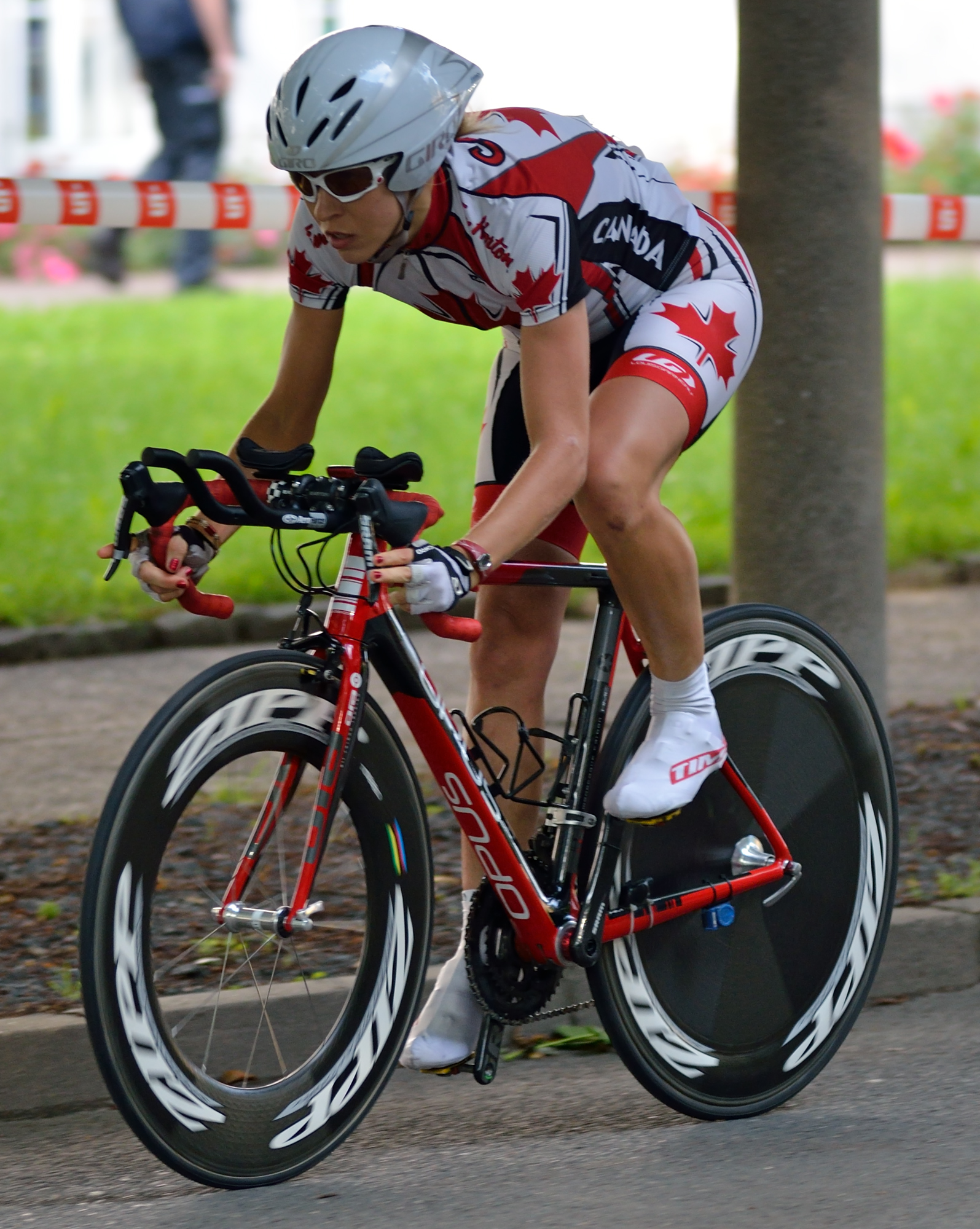 Veronique Labonte from the National Team Canada during the Women's Tour of Thuringia 2012 in Zwickau, Germany.